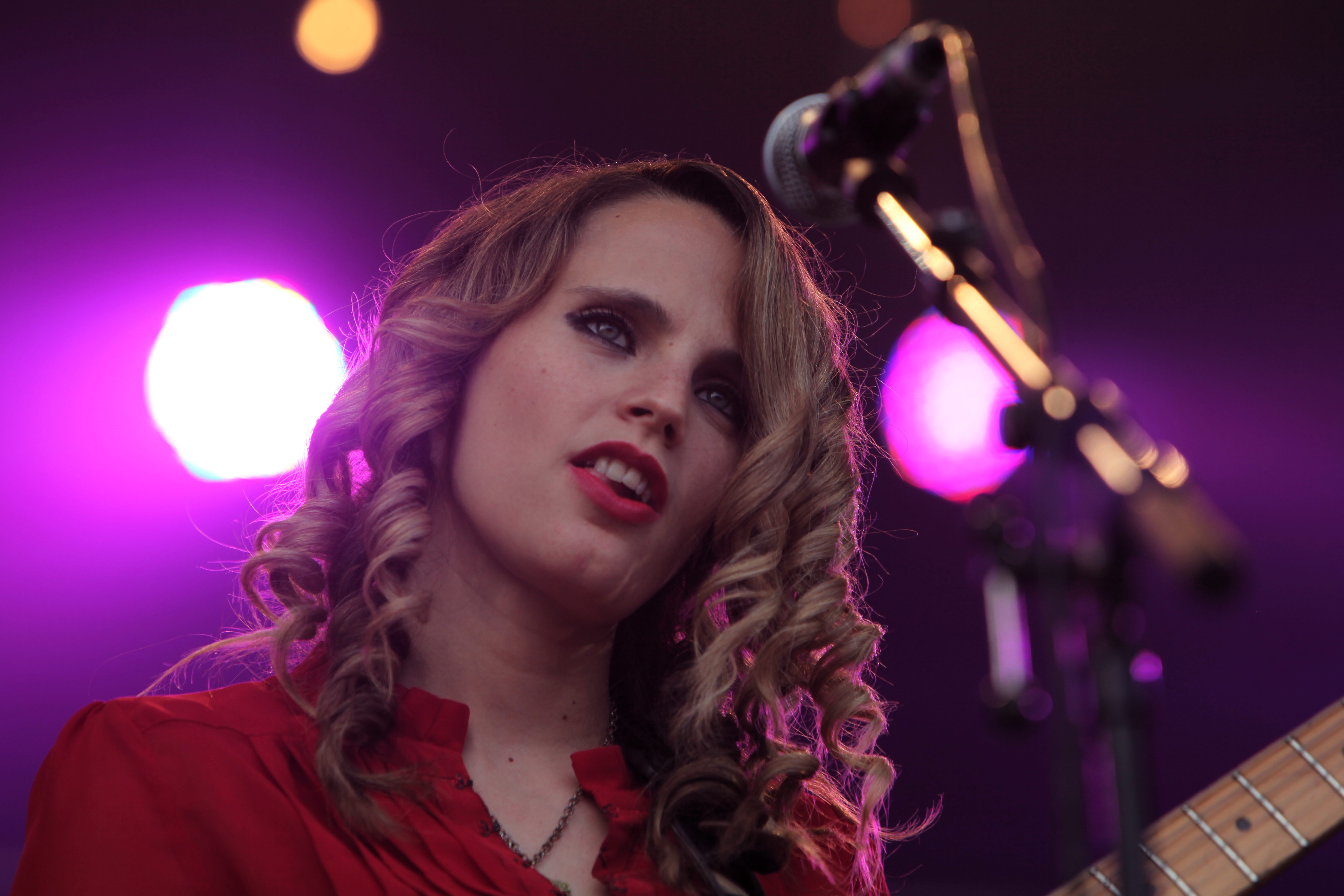 Anna Calvi at the Eurockéennes de Belfort 2011 The making of this document was supported by Wikimedia CH. (Submit your project!) For all the files concerned, please see the category Supported by Wikimedia CH.